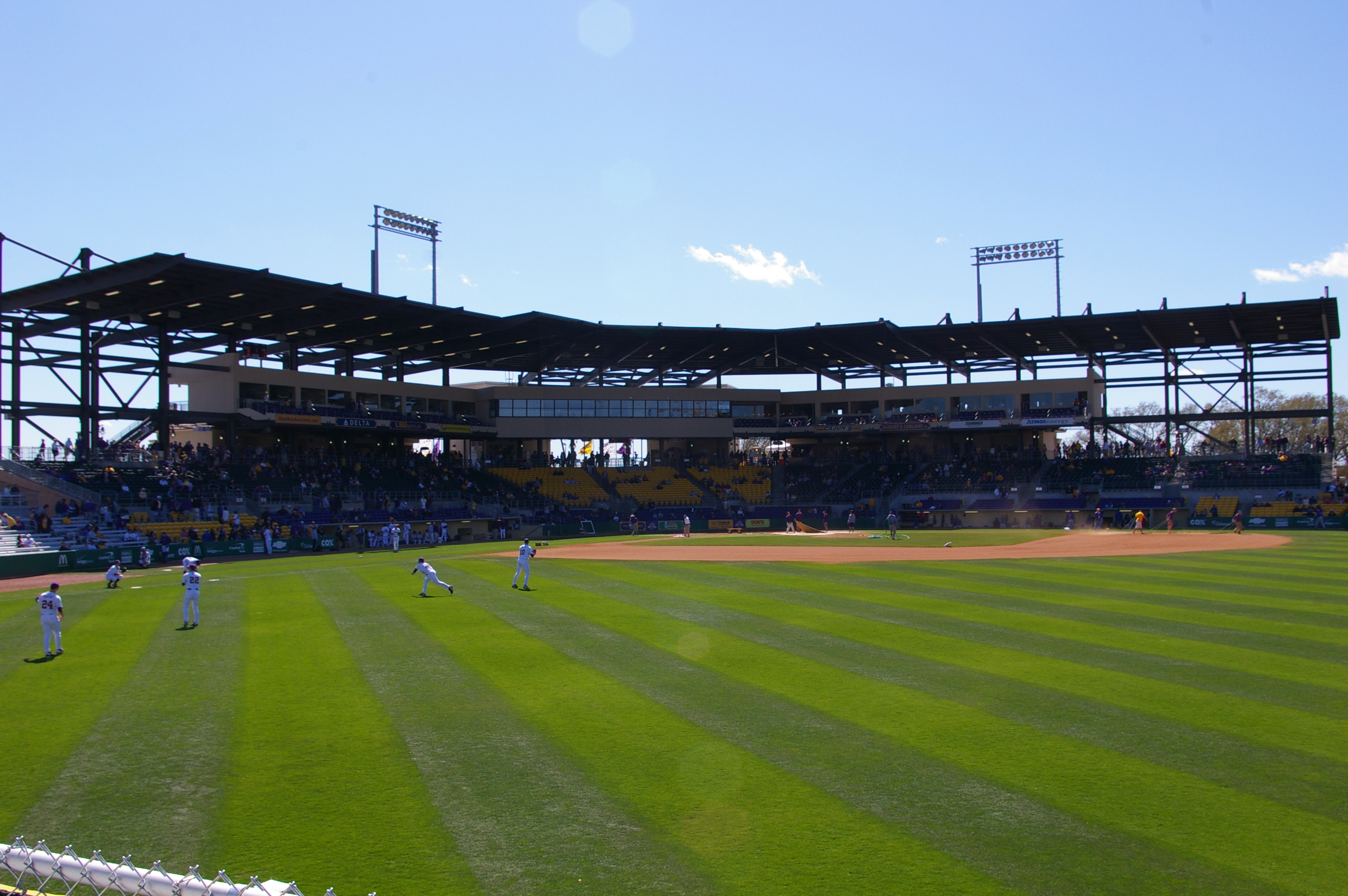 View of Alex Box from right field.